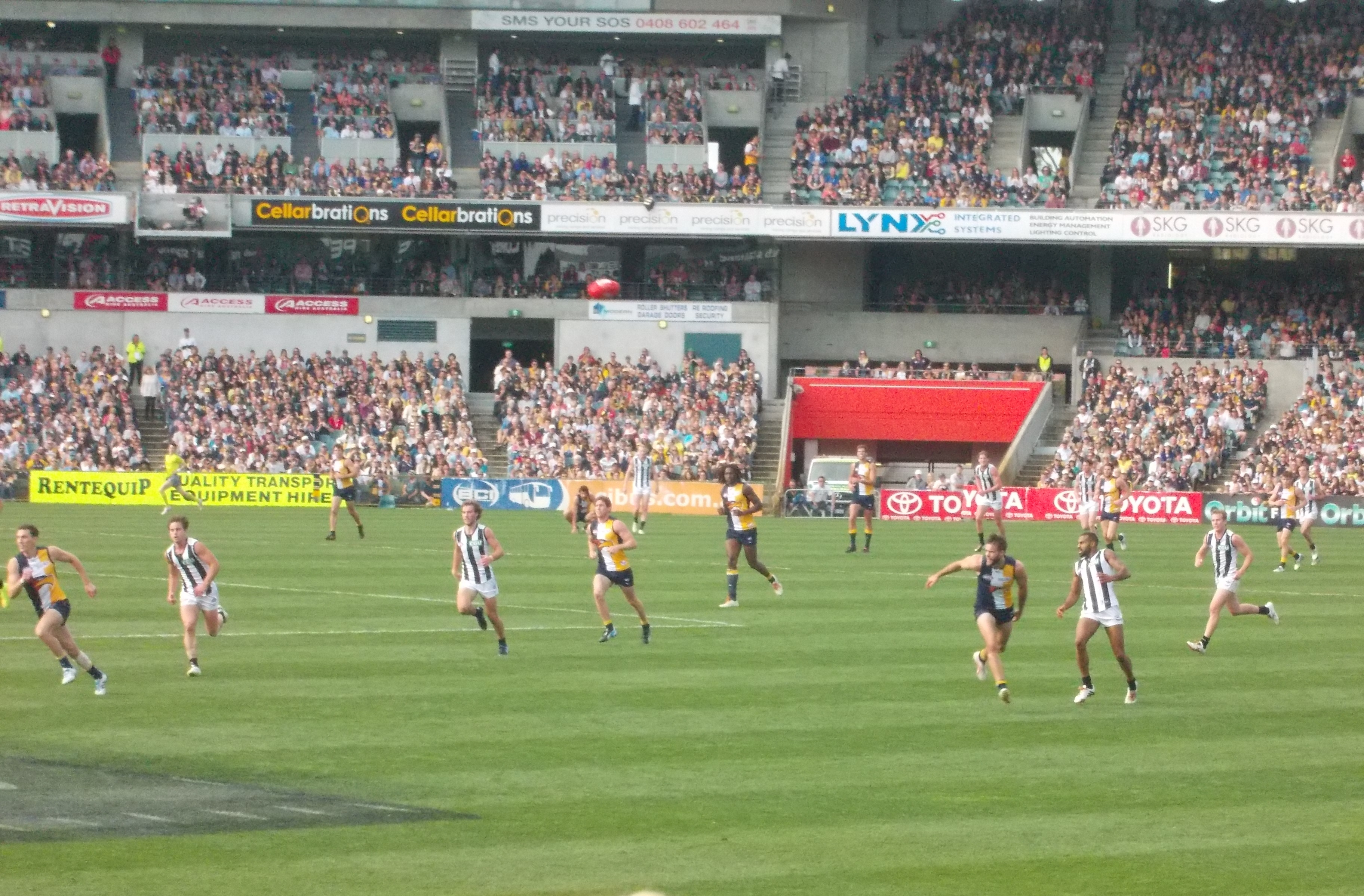 2014 Premiership AFL WCE vs Collingwood match at Paterson Stadium